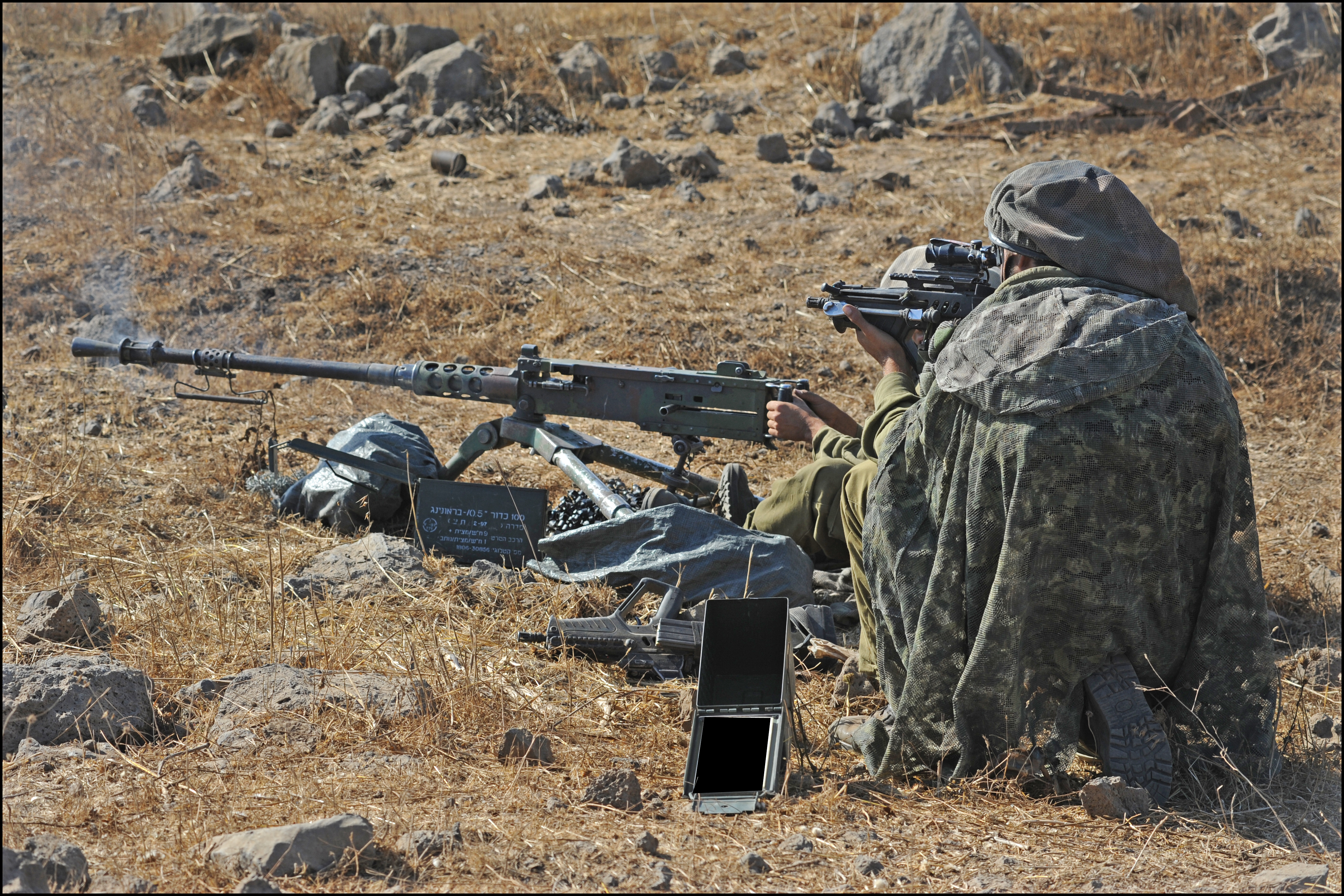 Israel Defense Forces infantry soldiers of the Golani Brigade fire M2 Browning 0.5 machine gun